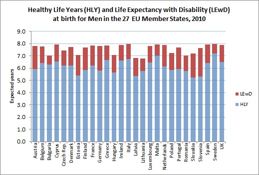 Healthy Life Years in Europe - 2010